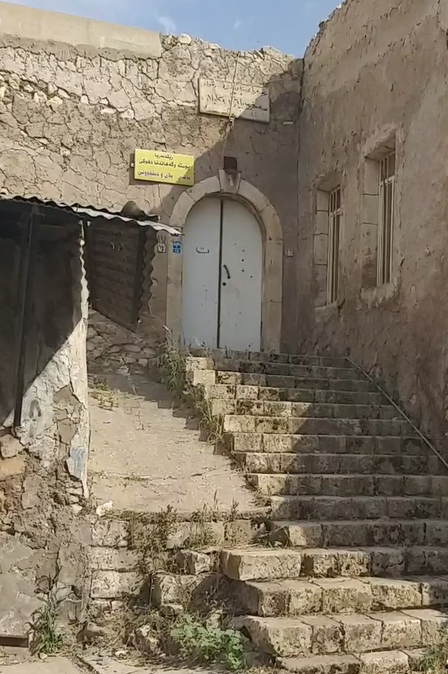 The house Roger Cumberland built for his family and where he was mortally shot on June 12, 1938